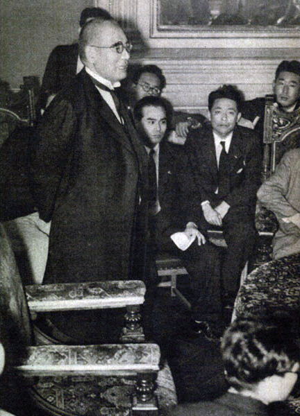 International Law expert Admiral Kichisaburō Nomura (1877–1964) meets the press after having been appointed as Foreign Minister.